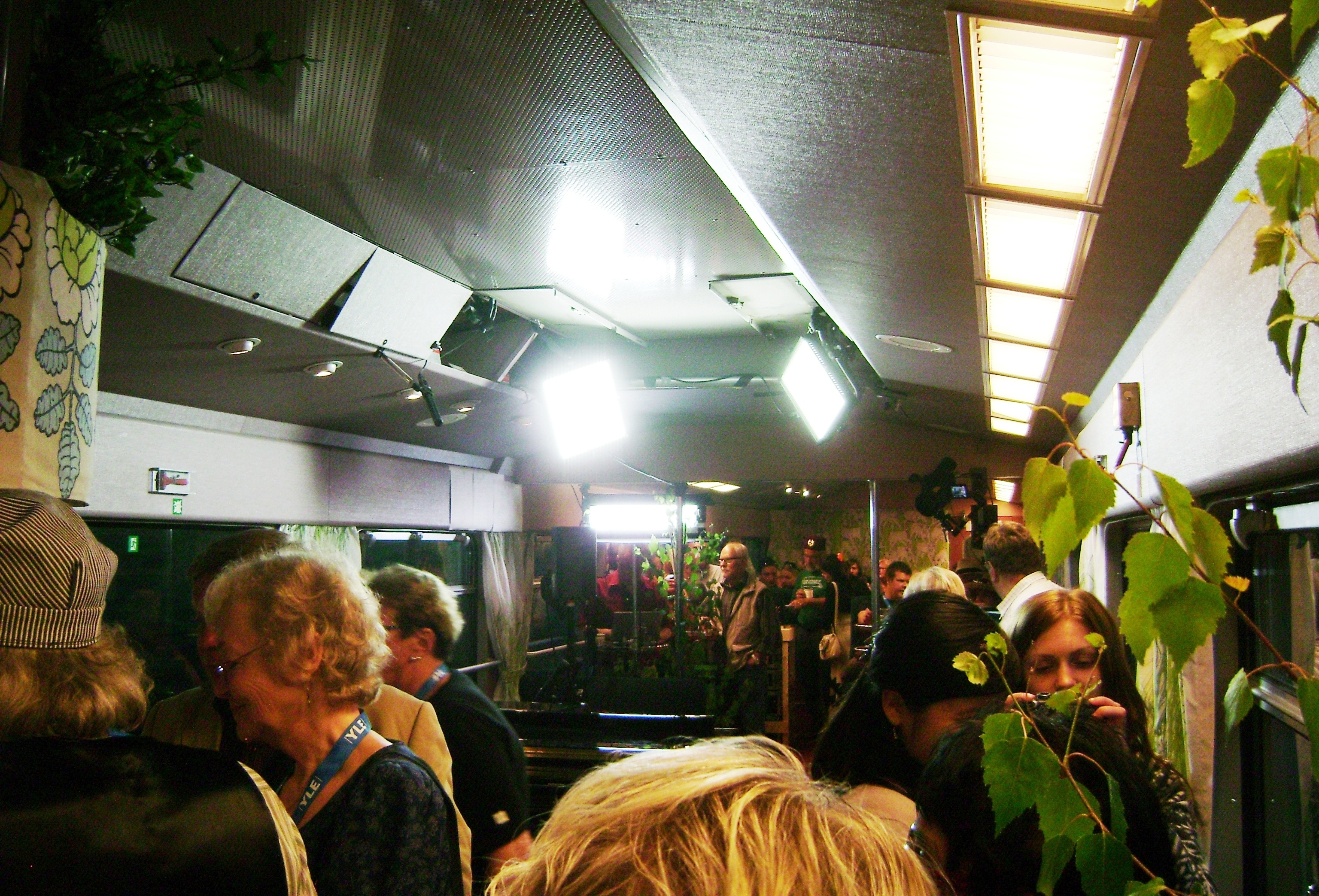 Bar car of the Midsummer Train.